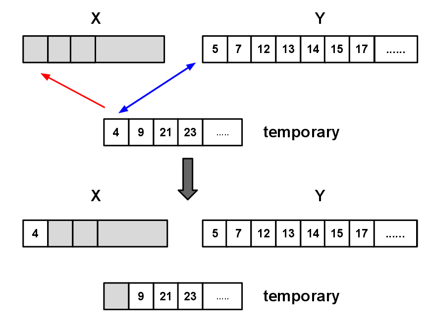 depiction of one-one merging in timsort